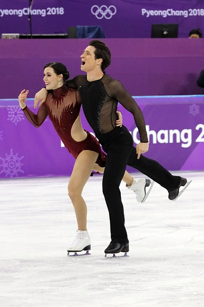 Tessa Virtue and Scott Moir at the 2018 Winter Olympic Games in PyeongChang